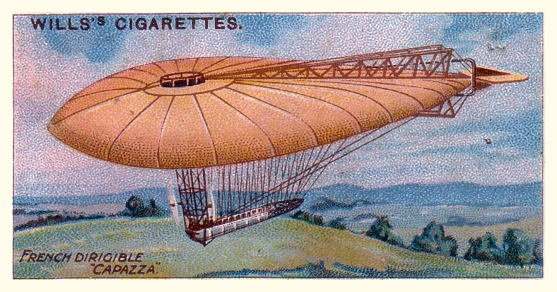 Will's cigarette card showing Louis Capazza's design for a lenticular-shaped balloon airship, 1908. The card was published circa 1909.